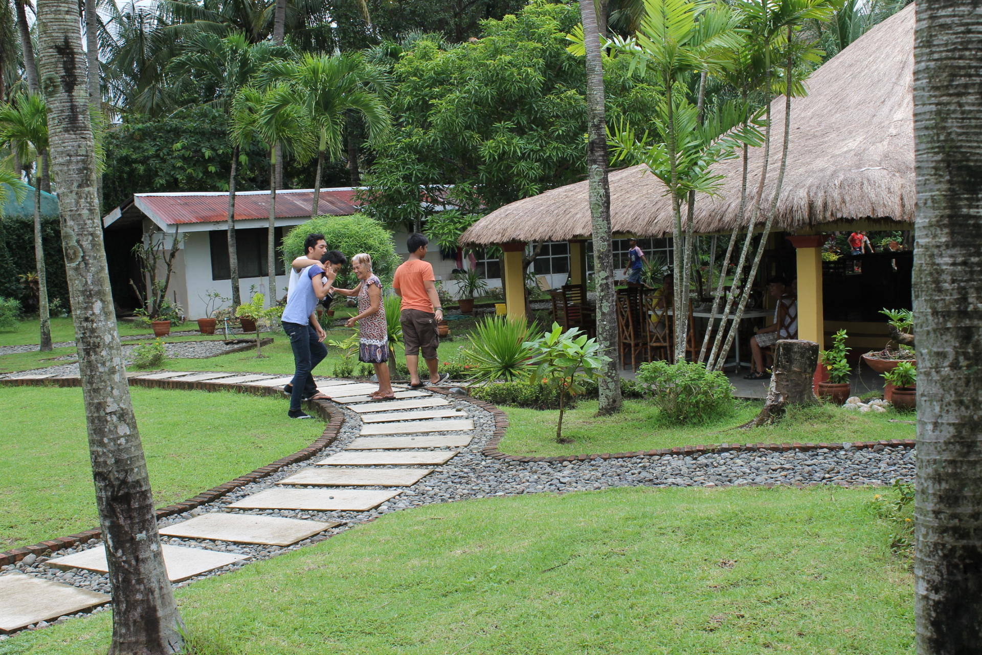 A first class beach resort here in this site!